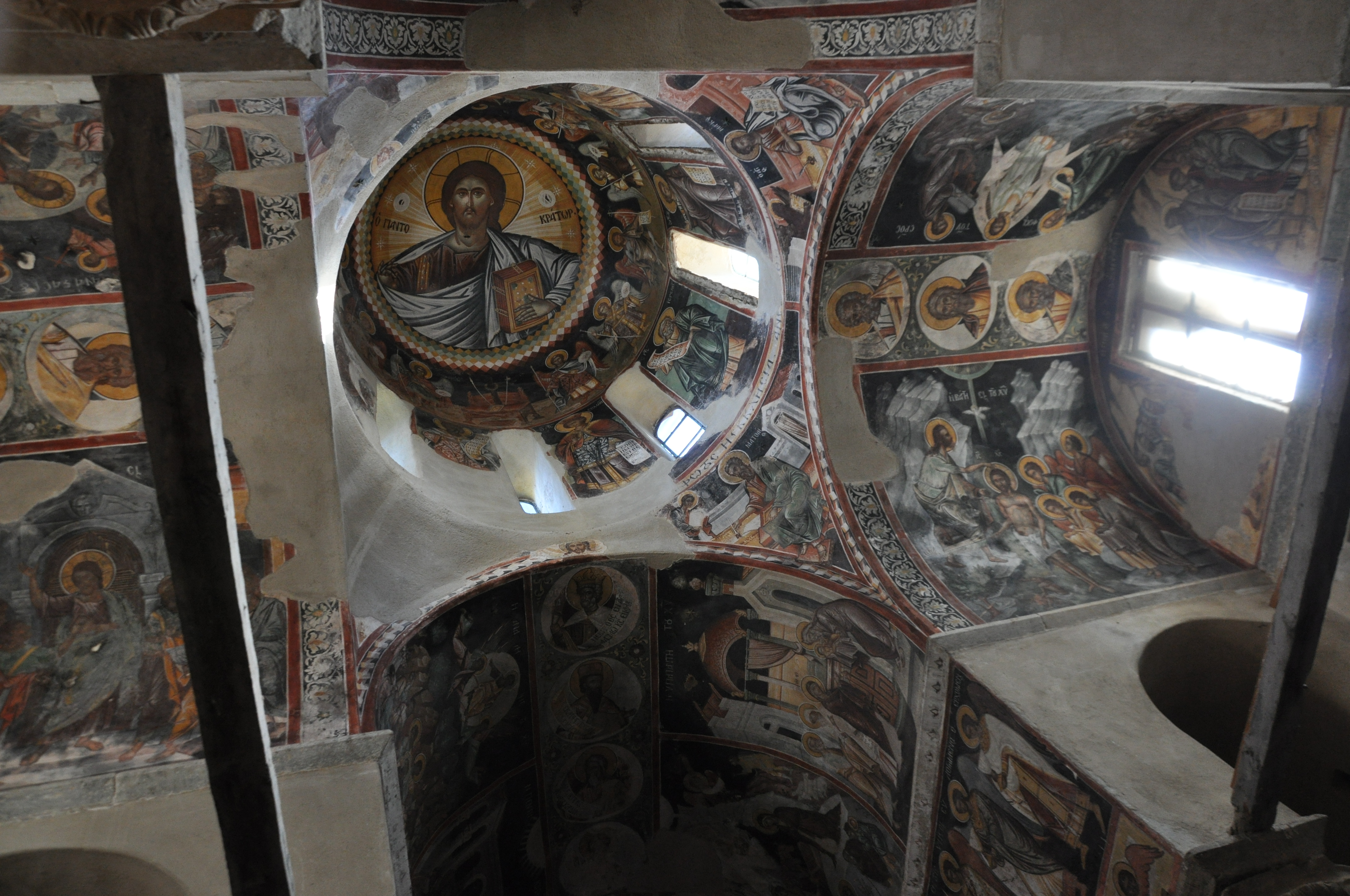 Kesariani, Athens, Greece